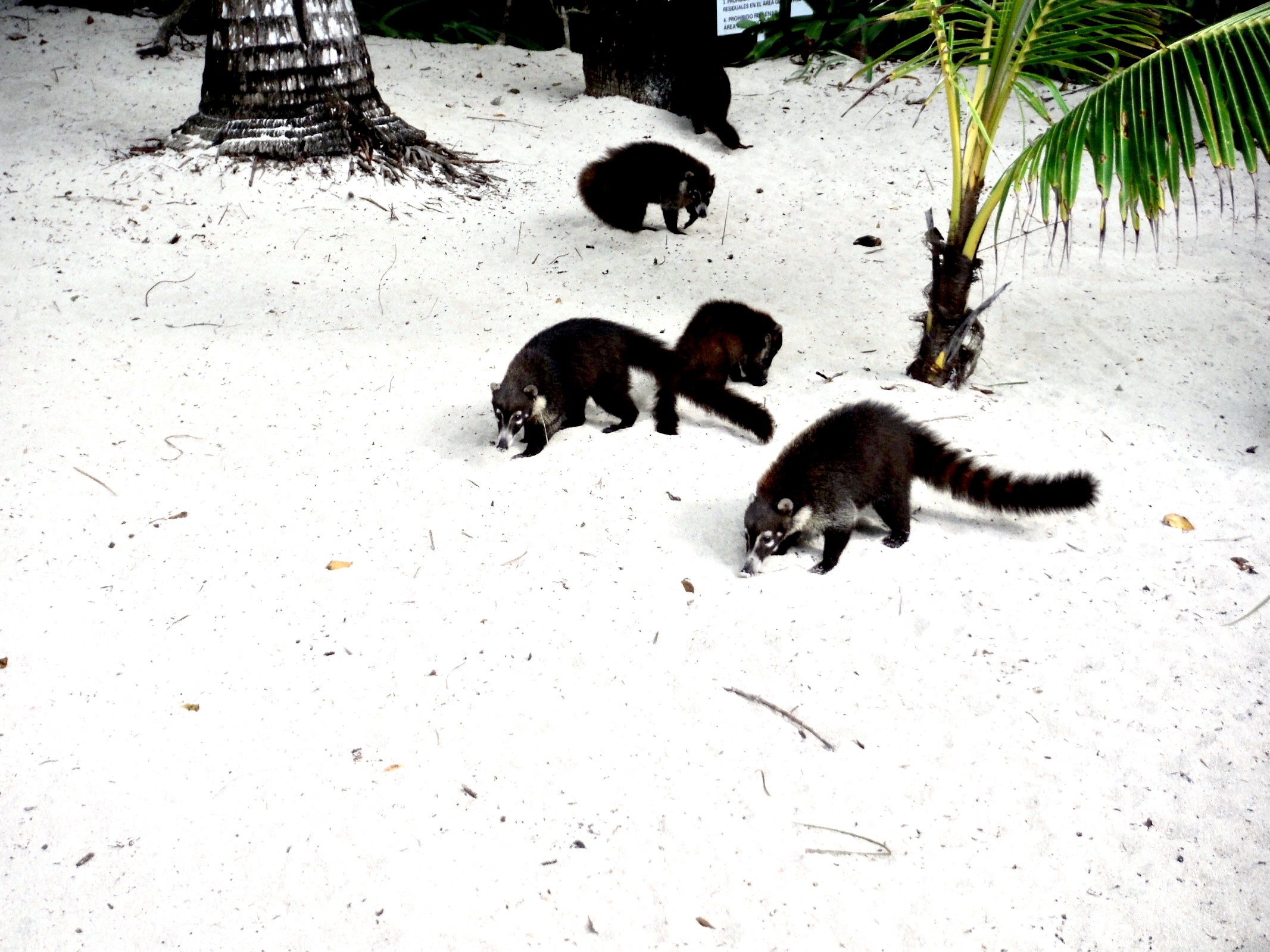 Cozumel Island Coati Family at Fury Beach, Mexico Jan 2020